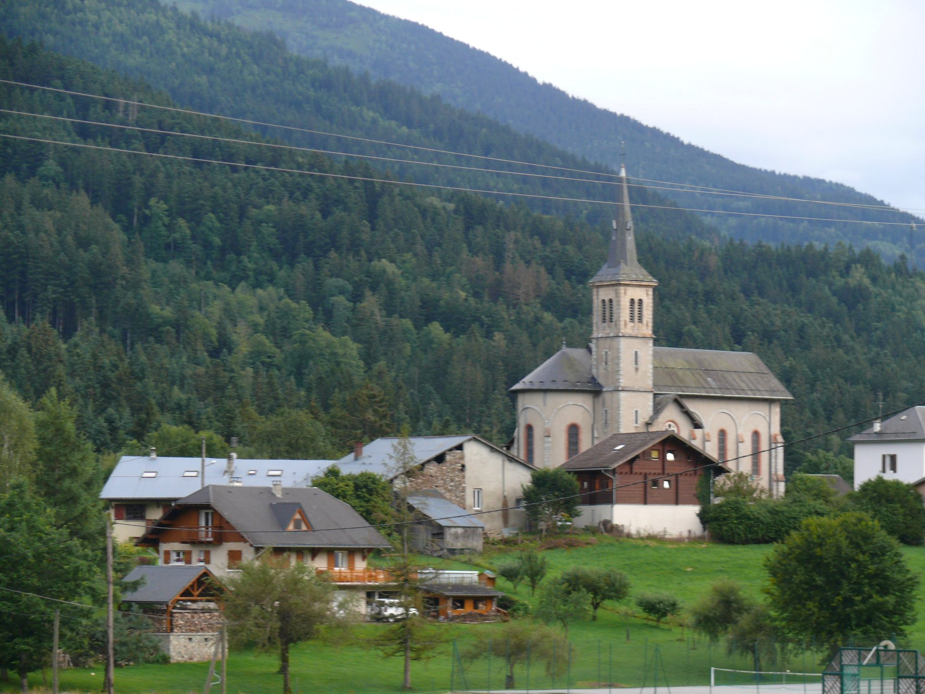 General view of Bourget-en-Huile (Savoie, Rhône-Alpes, France).